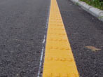 convex road line, thermoplastic rumble strip for traffic safety